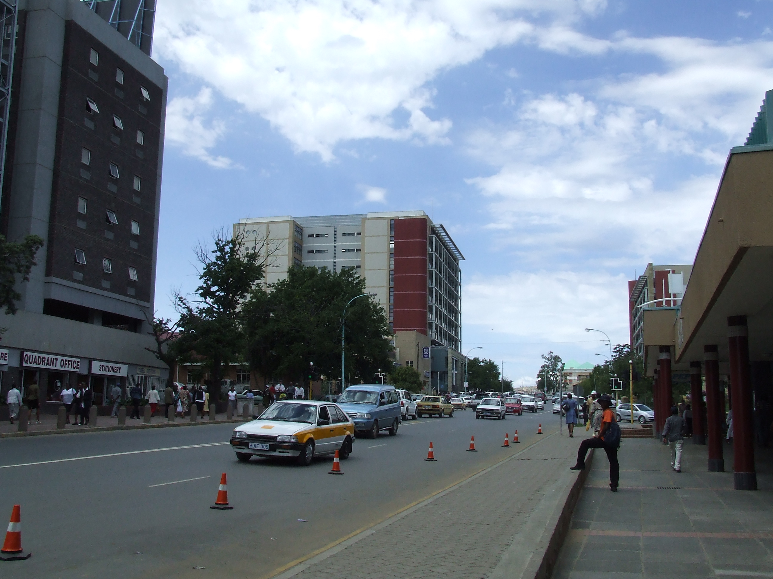 Kingsway, Maseru's main street.